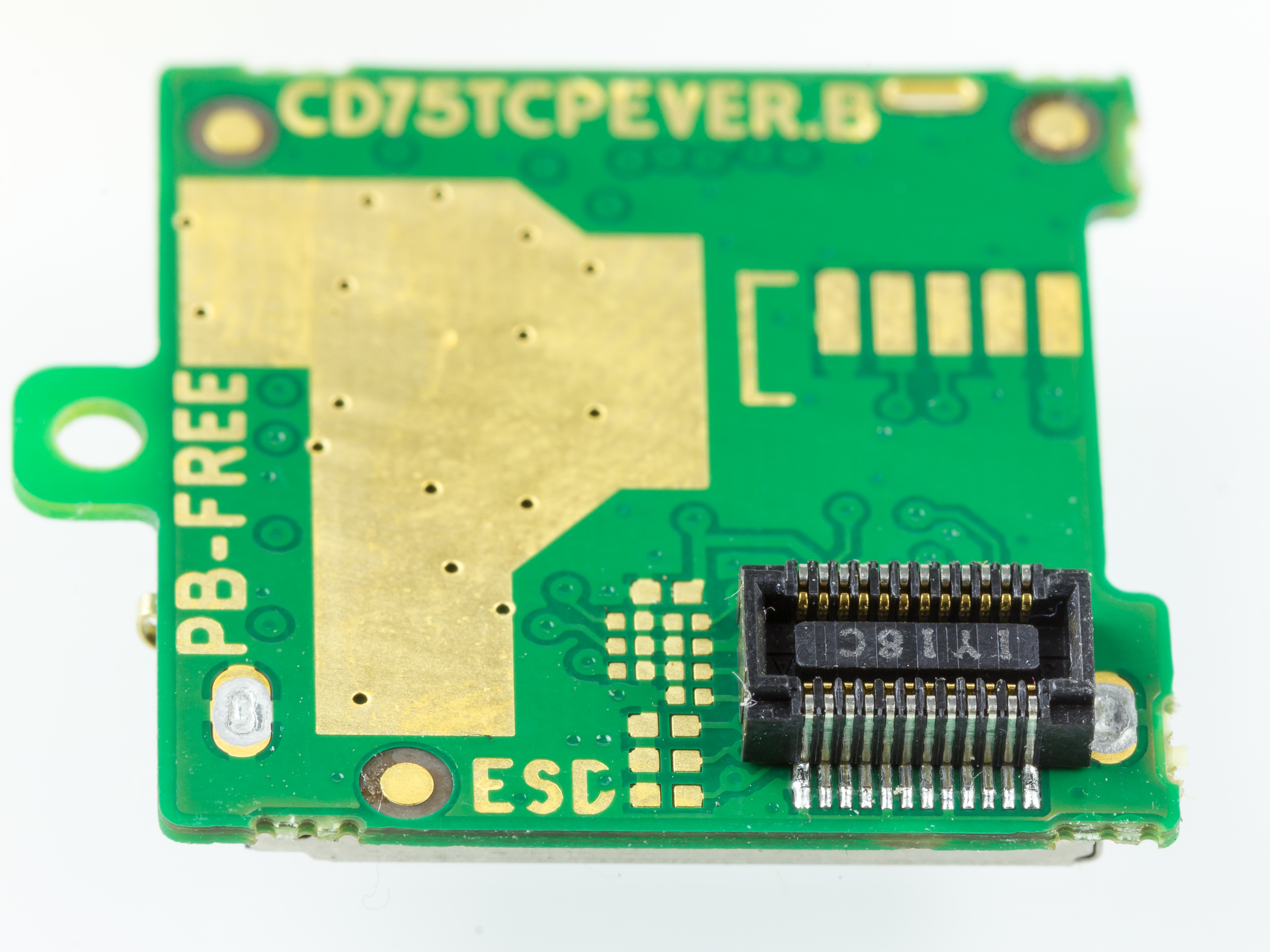 Huawei E367, O2 Surfstick Plus - Fine pitch board–to-board connector